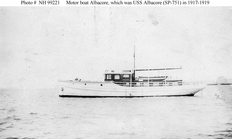 Motorboat Albacore prior to her United States Navy service as patrol vessel